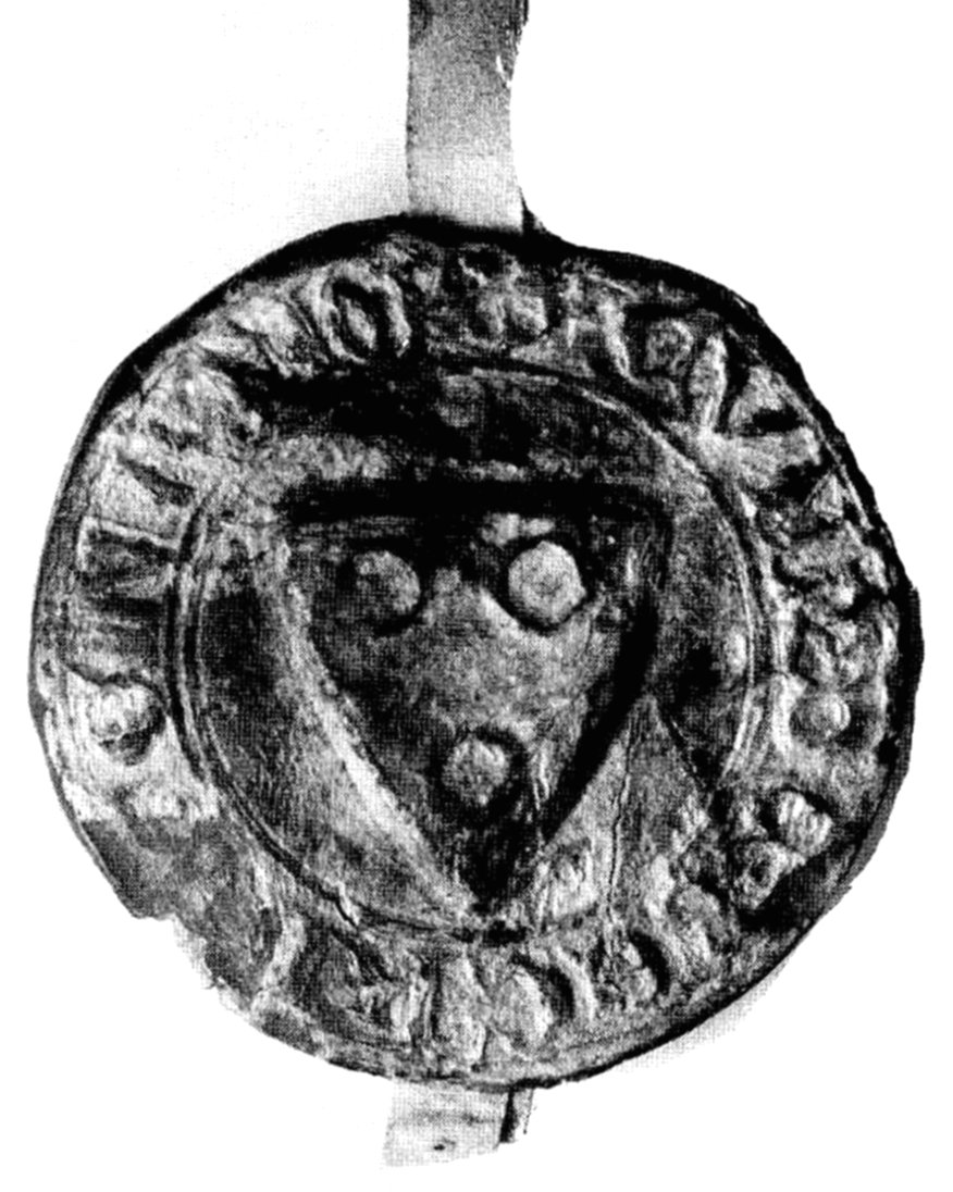 1297 Siegel Konrad II von Böckingen